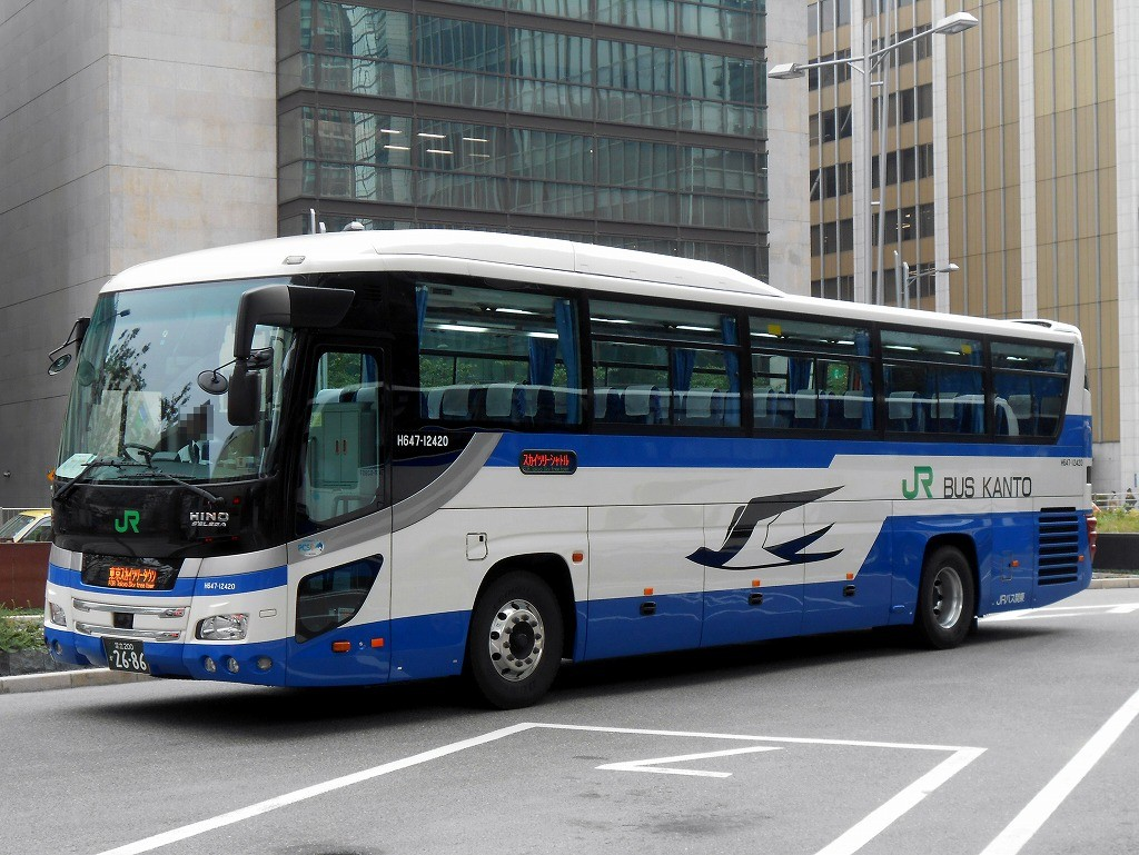 JR bus Kanto Hino S'elega (QRG-RU1ASCA)Skytree shuttle (Tokyo stn line)